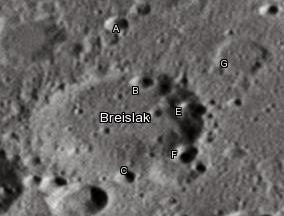 Breislak lunar crater as seen from Earth with satellite craters labeled